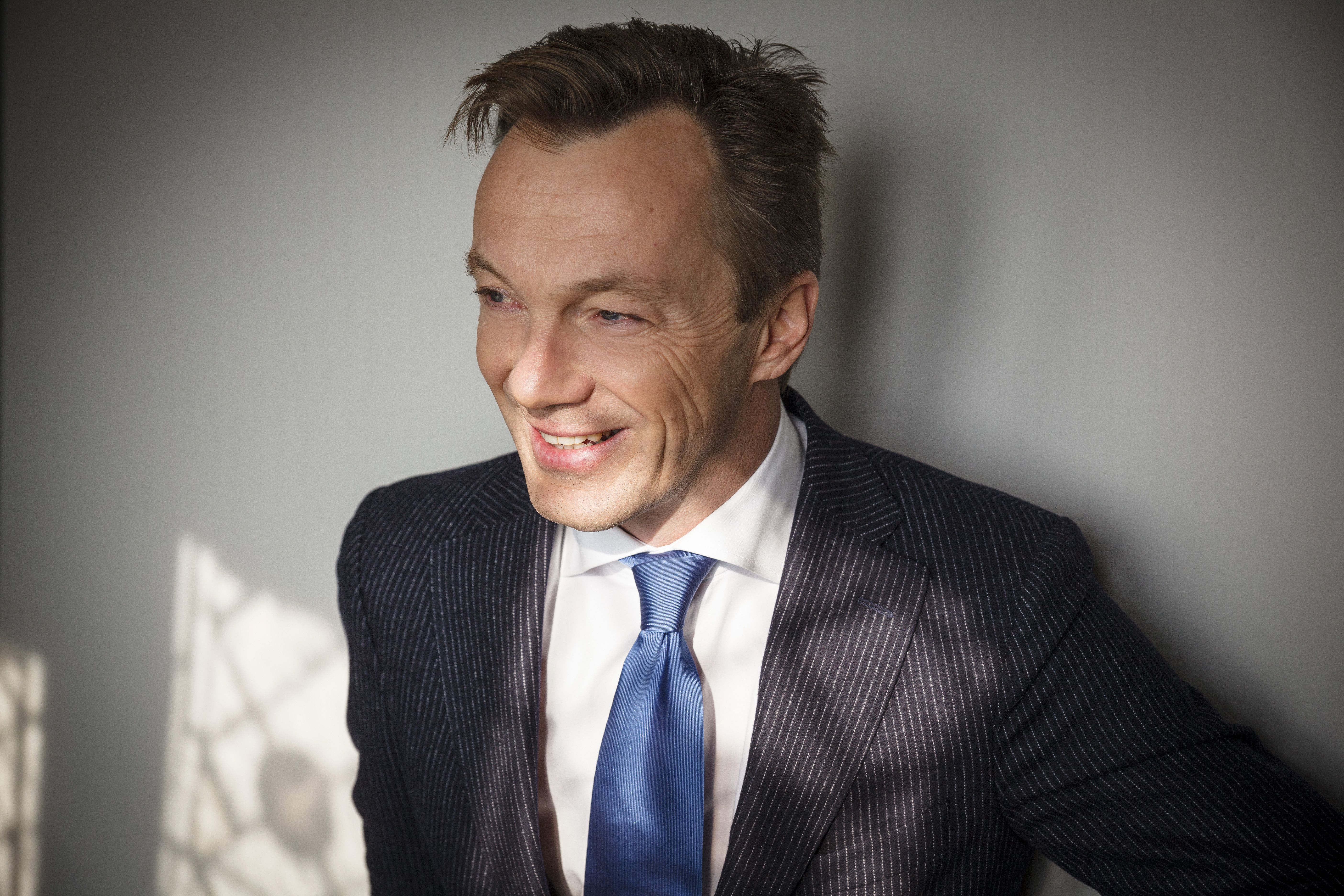 Board of Directors Rijksmuseum. Directie Rijksmuseum. Wim PIJBES (1961) General Director at the Rijksmuseum Amsterdam. Hoofddirecteur van het Rijksmuseum. photo VINCENT MENTZEL. Nederland. Amsterdam, march 8, 2013